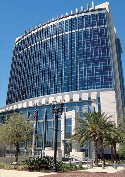 taken for this article